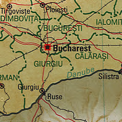 Map of Bucharest Municipality, Romania.